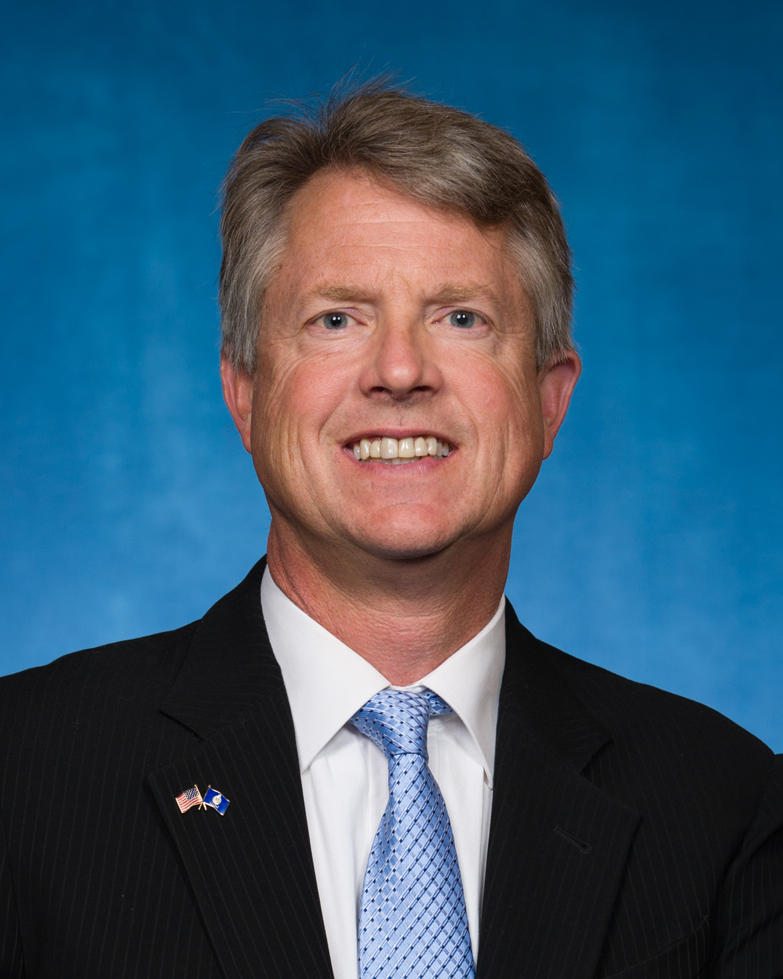 Roger Marshall Freshman Portrait